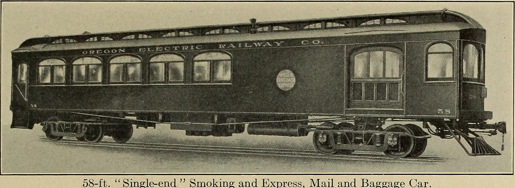 Identifier: steelrailstheirh00sell Title: Steel rails; their history, properties, strength and manufacture, with notes on the principles of rolling stock and track design Year: 1913 (1910s) Authors: Sellew, William Hamilton, 1875- Subjects: Railroad rails Publisher: New York, D. Van Nostrand Text Appearing Before Image: PRESSURE OF THE WHEEL ON THE RAIL 87 In Figs. 51 and 52 are given examples of the cars in use on electric rail-ways, both for city service and on the longer runs of the interurban lines. Text Appearing After Image: Single-end Smoking and Express, Mail and Baggage Car.Seat ing capacity, 38. Weight of car body, about 34,000 lbs. Wheel base of trucks, 66. Weight of trucks, 21,460 lbs. Weight complete, about 38j tons.